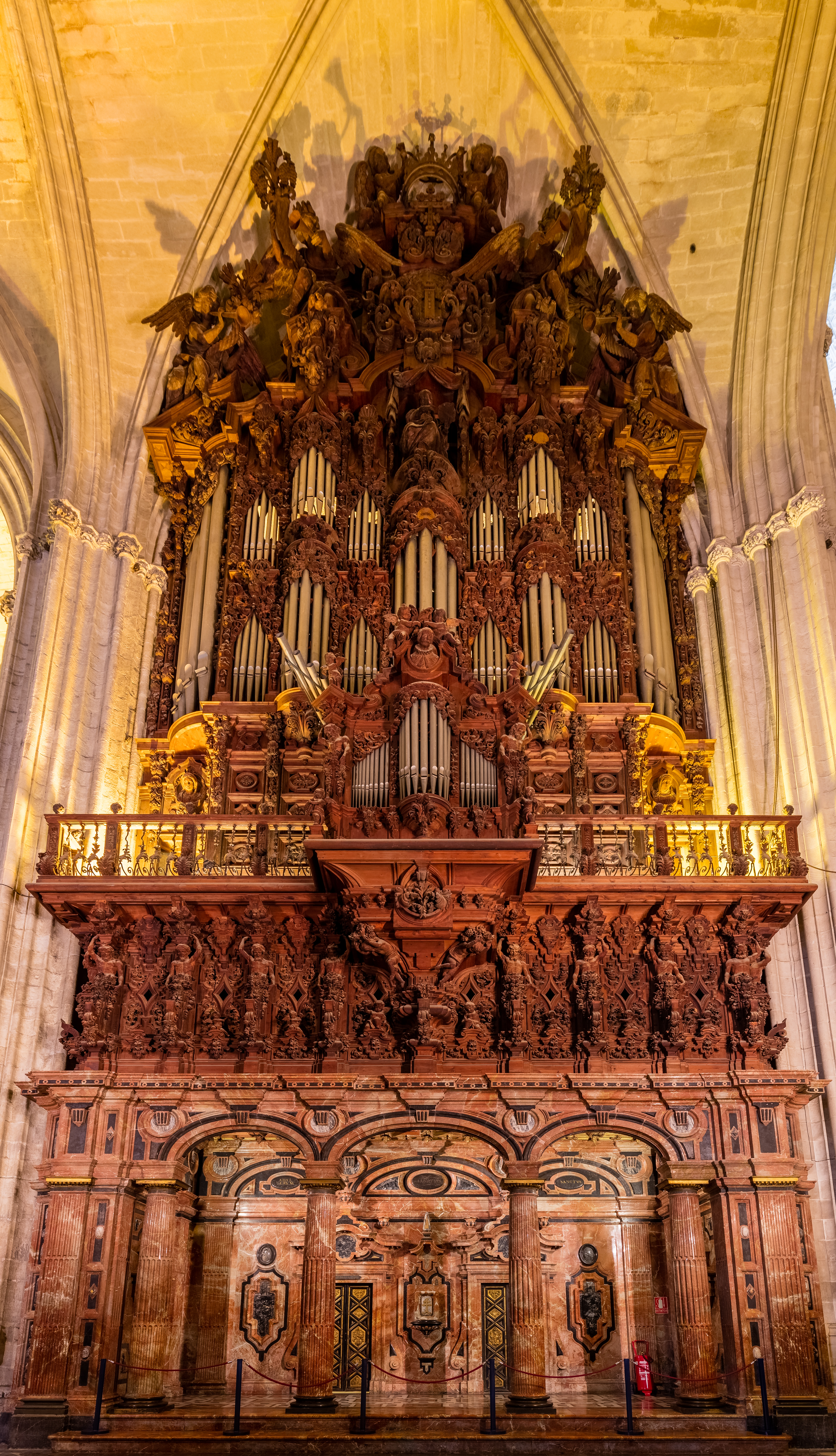 Organ, Cathedral of Seville, Seville, Spain